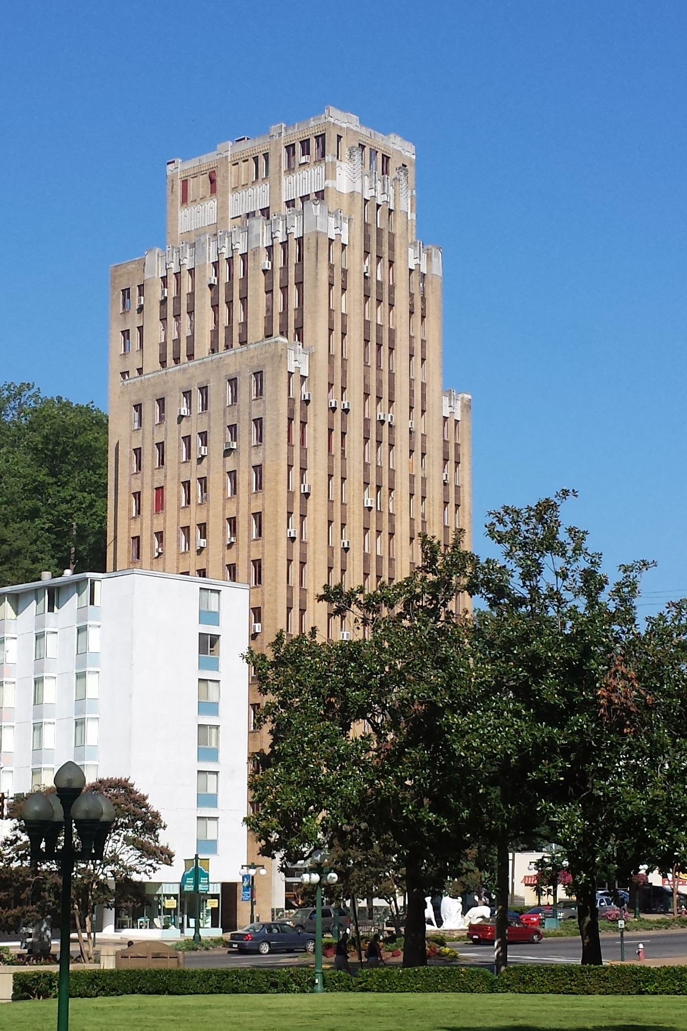 236 Central Avenue, 1929 Art Deco skyscraper, tallest in Arkansas until 1960s